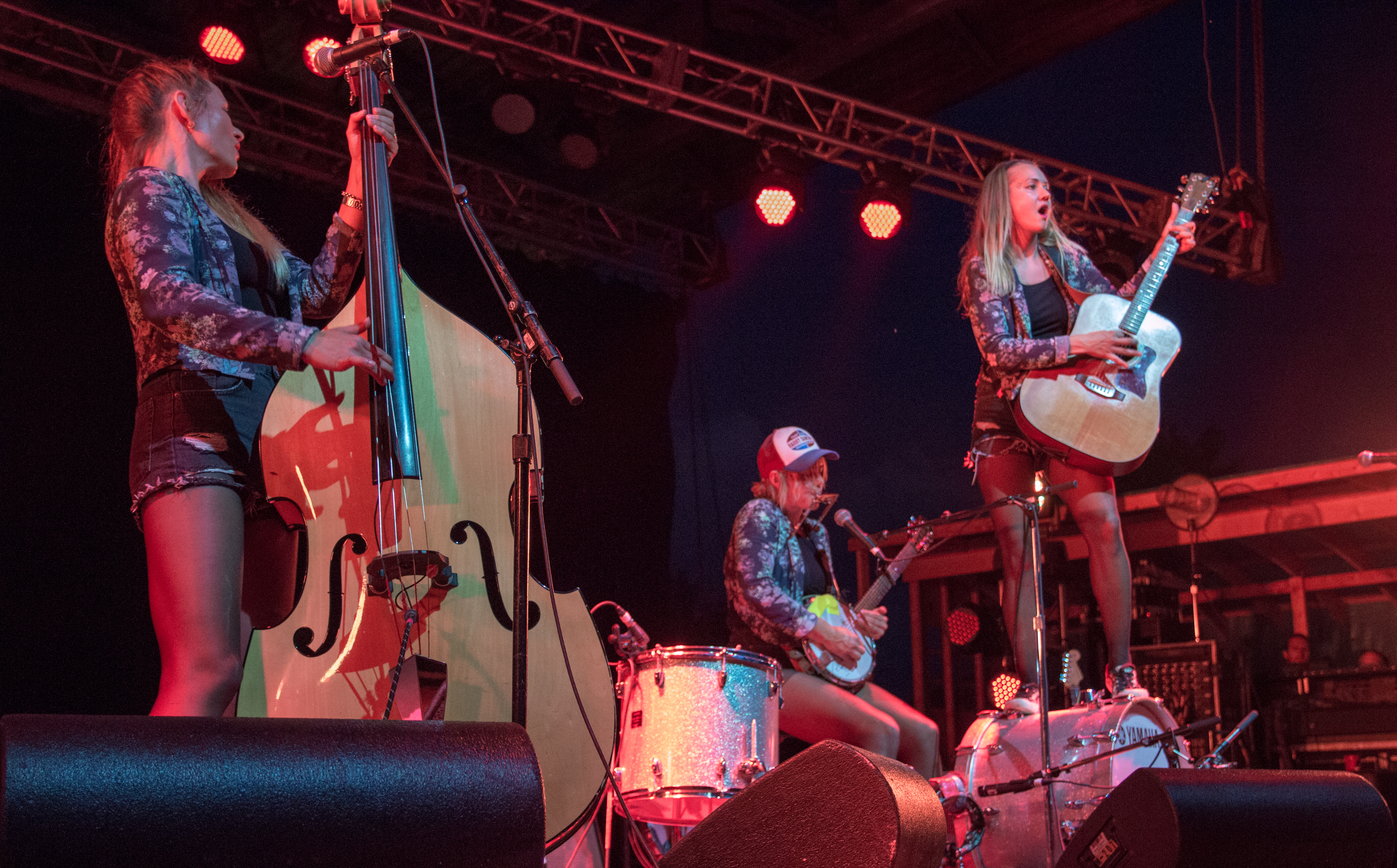 Baskery performing at the 2015 edition of the Hillside Festival in Guelph, ON